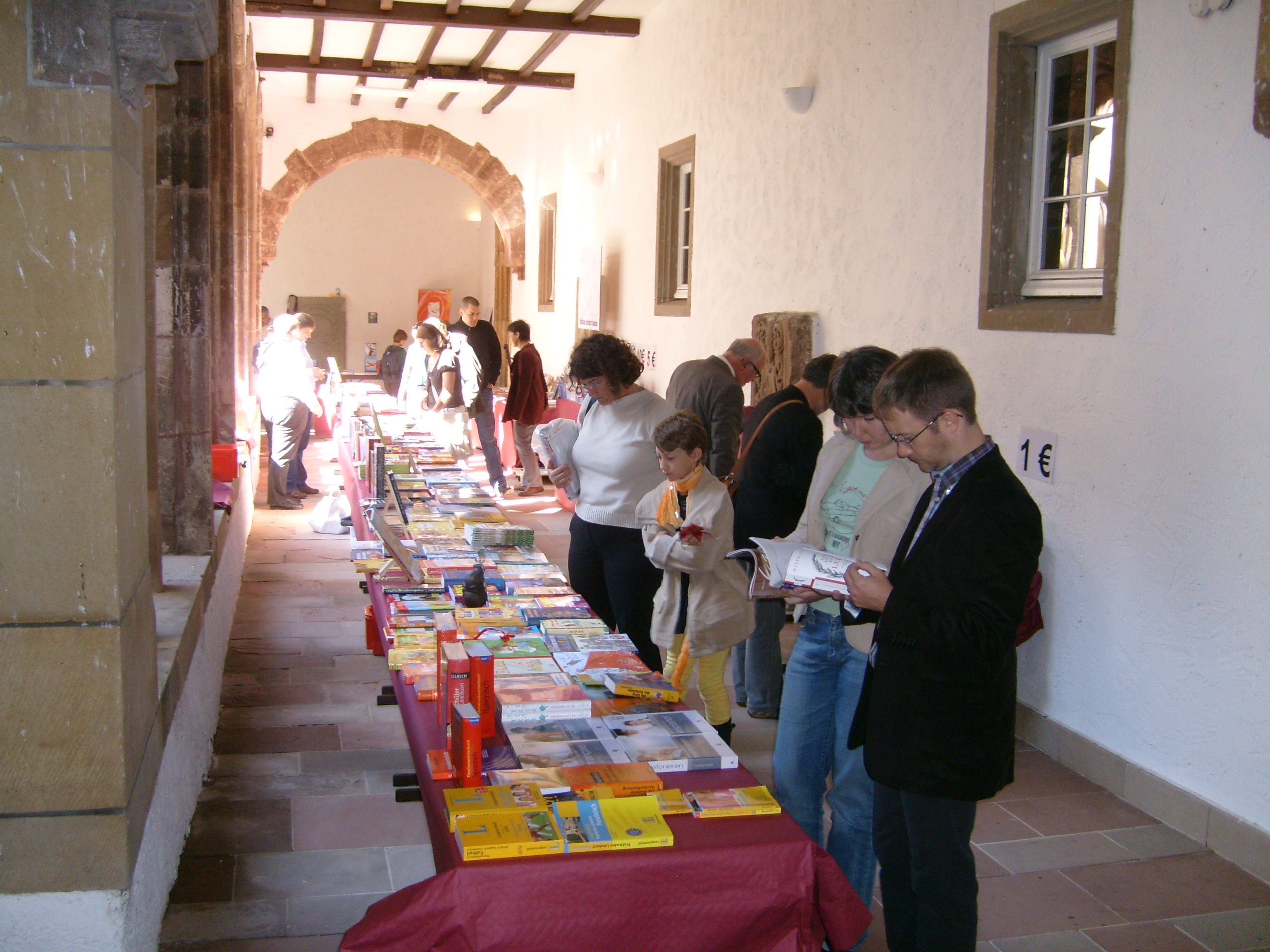 The Vianden book-feast, called "cité littéraire", Luxembourg.